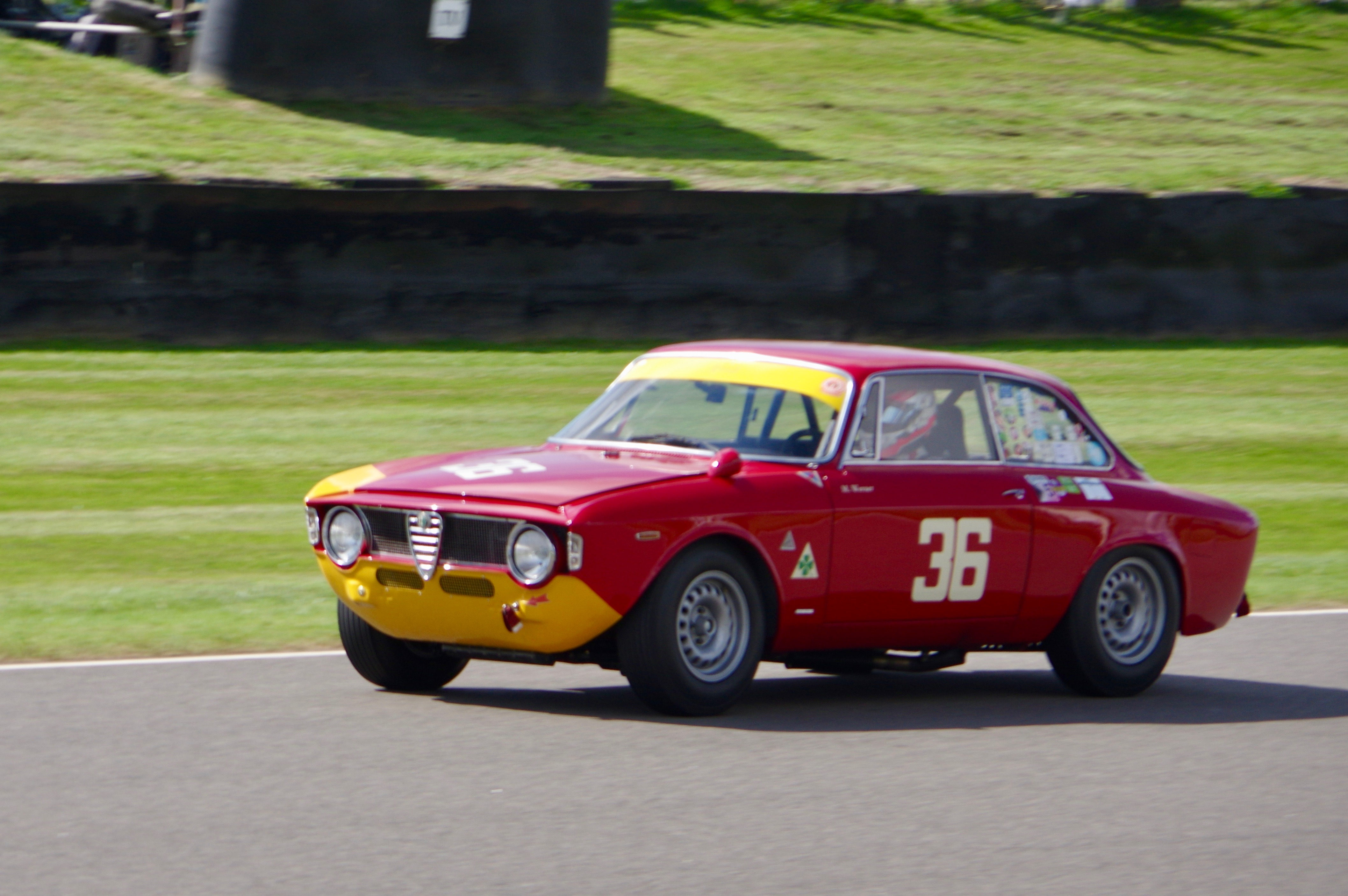 St. Marys' Trophy for 1960s Saloon Cars Goodwood Revival 2018